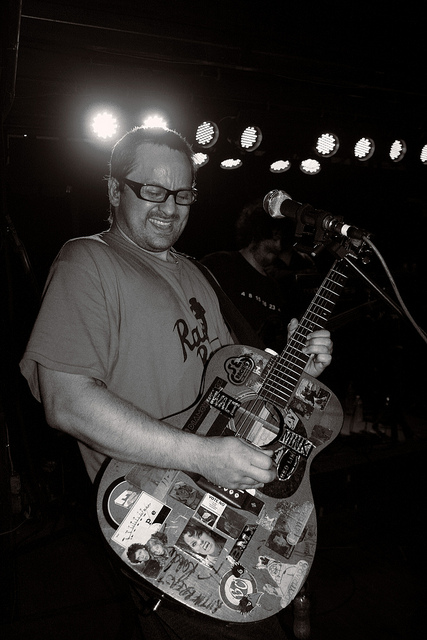 Brendan Brown is seen performing live on May 21, 2010.